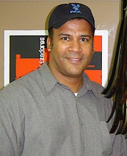 I personally took this photo of Luis Moro at The Havana Film Festival in Havana, Cuba.